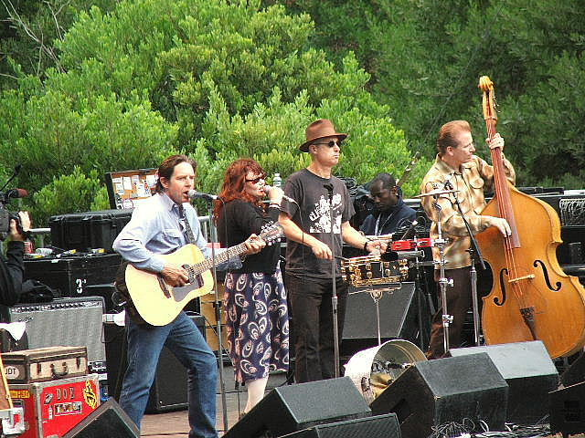 The Knitters @ Hardly Strictly Bluegrass Festival 2005. Golden Gate Park - San Francisco, CA. Photo by Ron Baker.